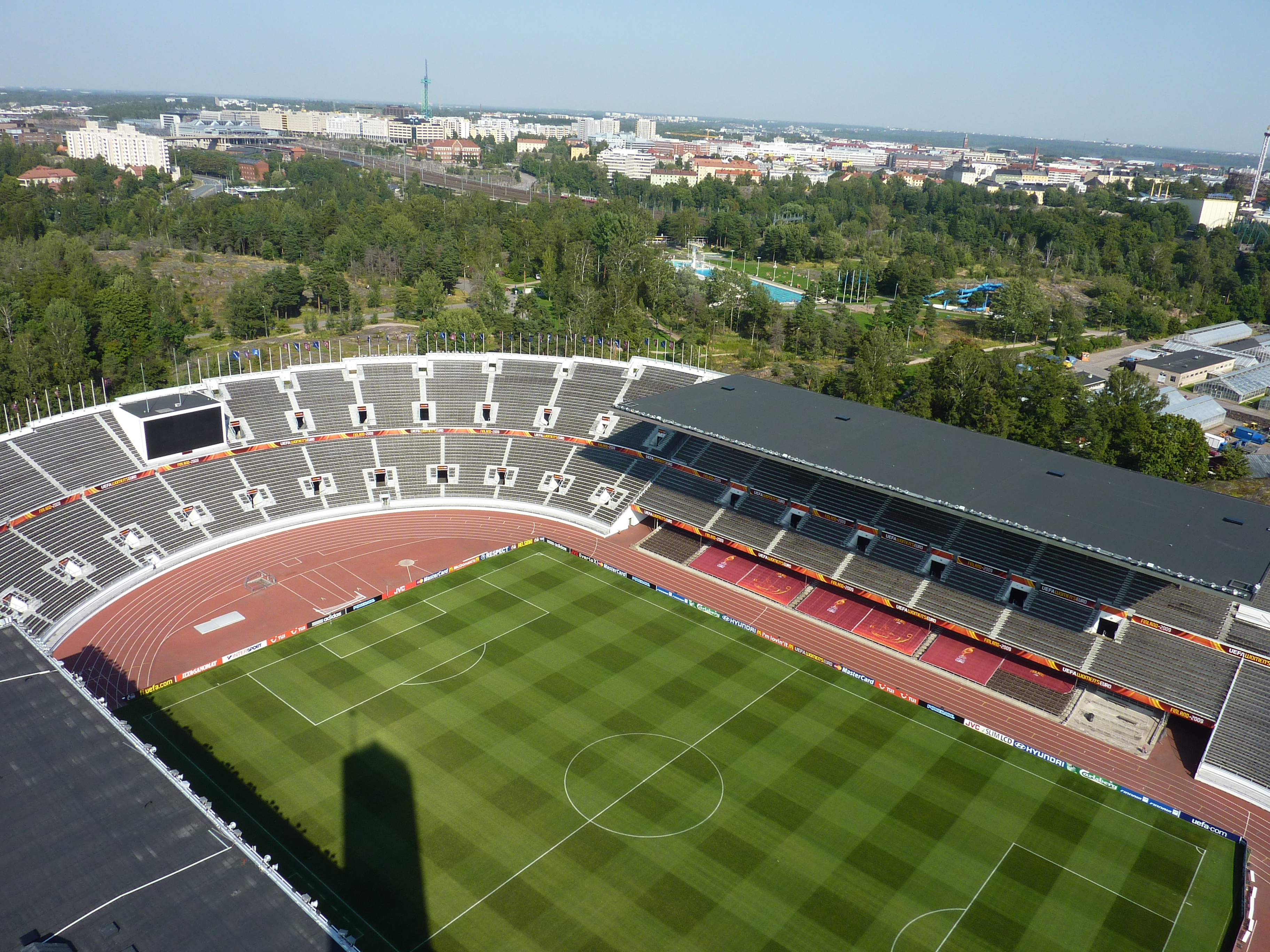 Olympic Stadium in 1952